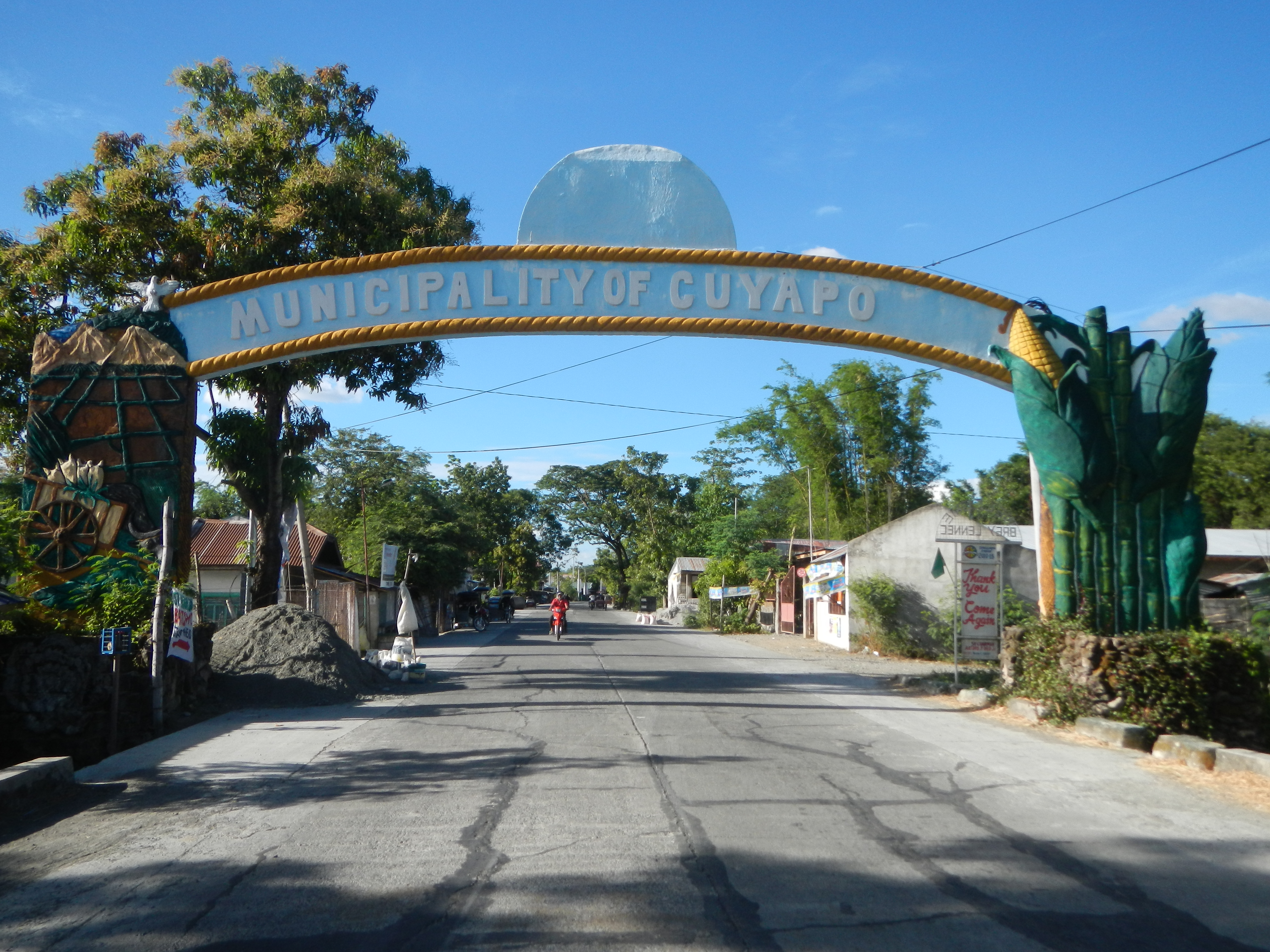 Barangay San Antonio beside Santa Clara, beside Barangays Nagmisahan, Tagtagumbao, Burgos, Bibiclat, Matindeg and Cabileo, Cuvra, San Jose and Pugo, Cuyapo, Nueva Ecija, Nueva Ecija Province; the Cuyapo, Nueva Ecija Welcome Arch is located in Barangay Santa Clara, Cuyapo, Nueva Ecija beside Barangay Lennec, Guimba, Nueva Ecija, Nueva Ecija Province (along the Cuyapo-Guimba, Nueva Ecija Road part of the Nueva-Ecija Pangasinan Road, interconnecting with the Nampicuan and Cuyapo, Nueva Ecija Provincial Road interconnecting with the Moncada-Ramos-Anao-Nampicuan, Nueva Ecija Arterial Provincial Road interconnecting with the Tarlac–Pangasinan–La Union Expressway or TIPLex towards or from Barangay San Julian, Moncada, Tarlac into and from MacArthur Highway or Manila North Road).